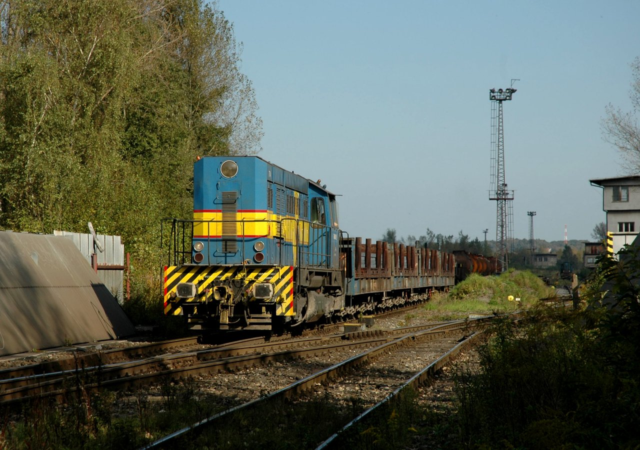 740.463 of ArcelorMittal Ostrava, Nová huť sever station (inside Nová huť iron works), Ostrava, Czech Republic